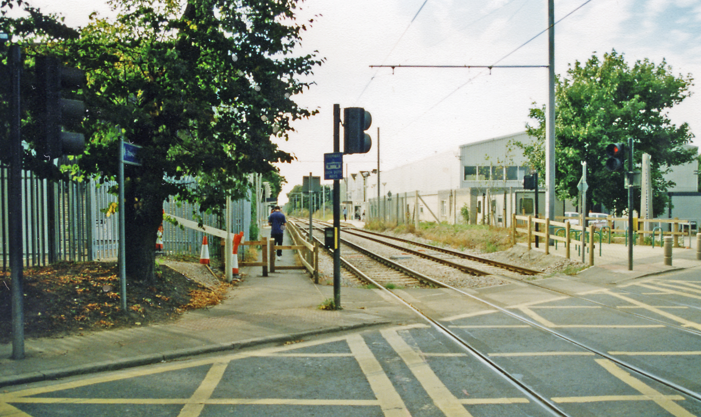 Beddington Lane tram-stop. View westward from Beddington Lane, towards Wimbledon: Croydon Tram-Link, opened May 2000. The station on the ex-LBSCR West Croydon - Wimbledon line, which was closed from 1/5/97, used to be nearer next to the road and can be seen in photographs taken in 1983 and 1961.